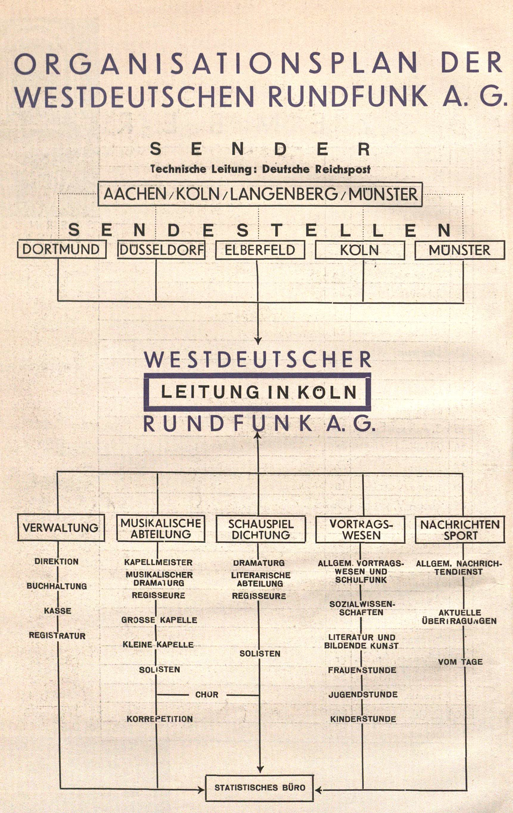 Diagram of the organisational structure of the Westdeutschen Rundfunk AG (forerunner of the WDR) in 1929